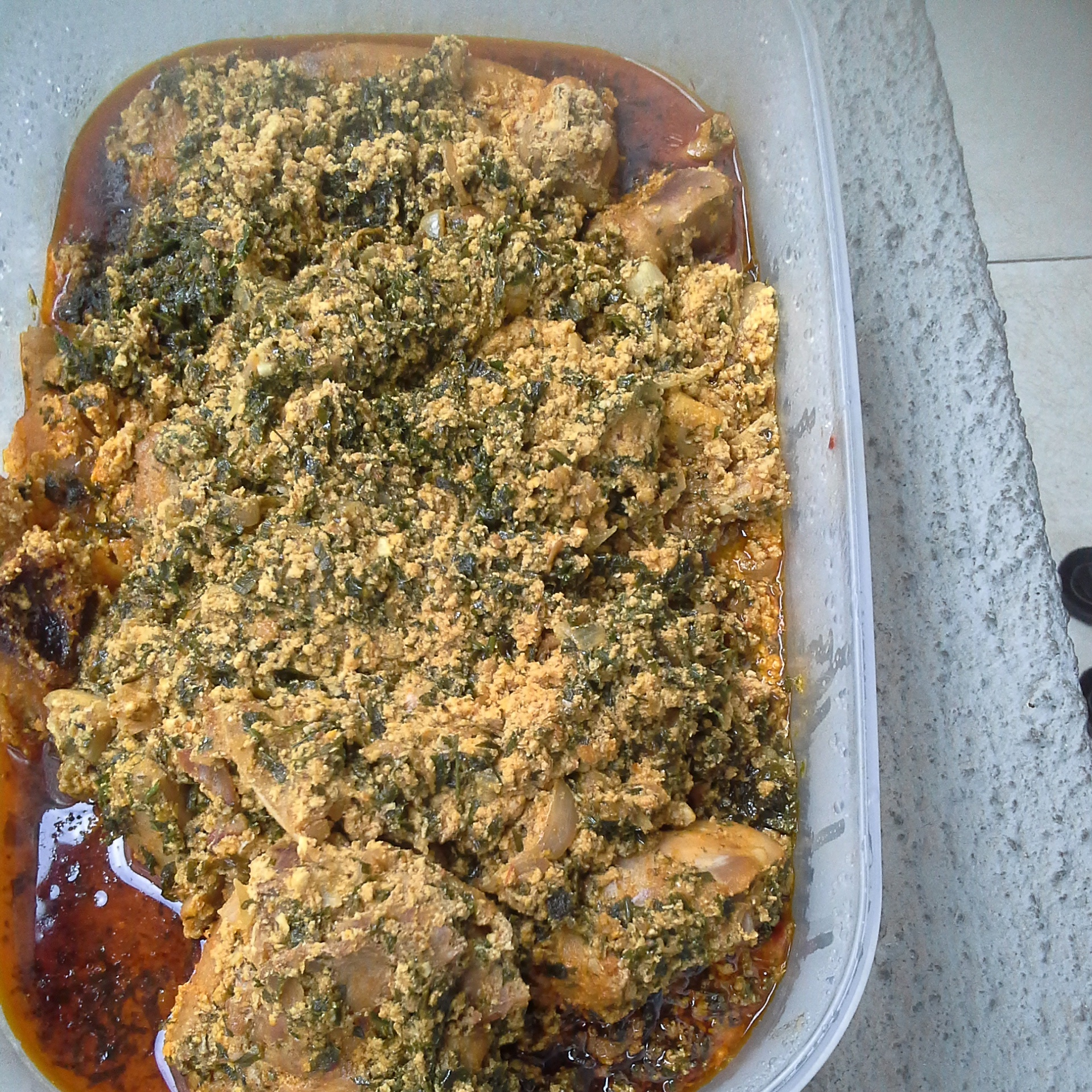 This is a traditional Nigerian cuisine made from egusi seeds, from a cucurbitaceous kind of melon and bitter leaf, garnished with chicken, beef and stock fish. This is an image of food from Nigeria